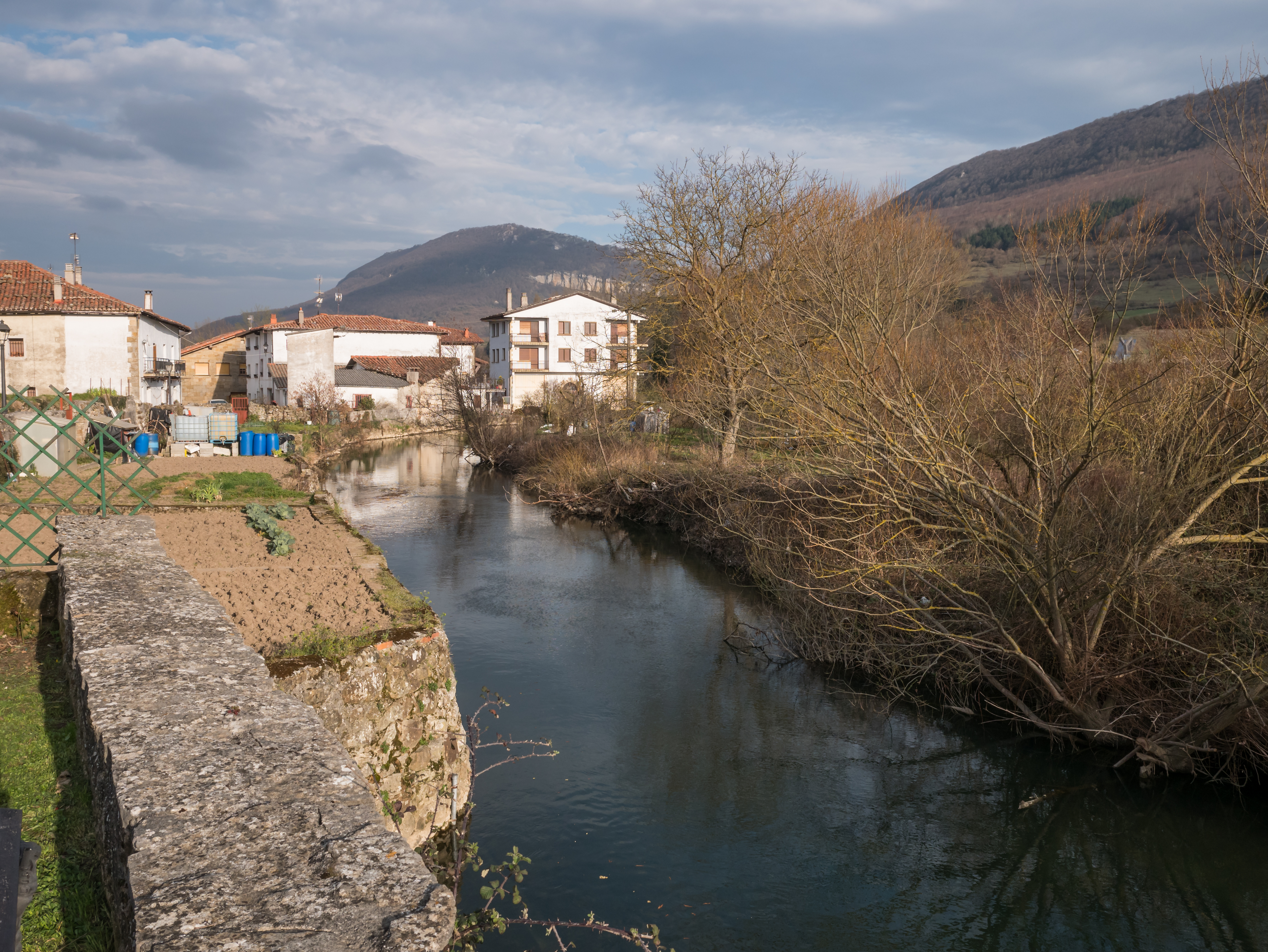 Arakil River at Ziordia. Navarre, Spain